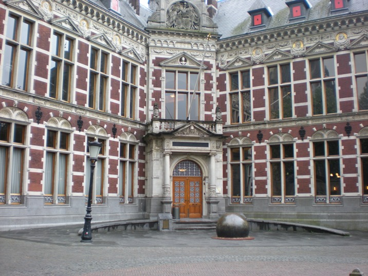 Headquarters of Utrecht University